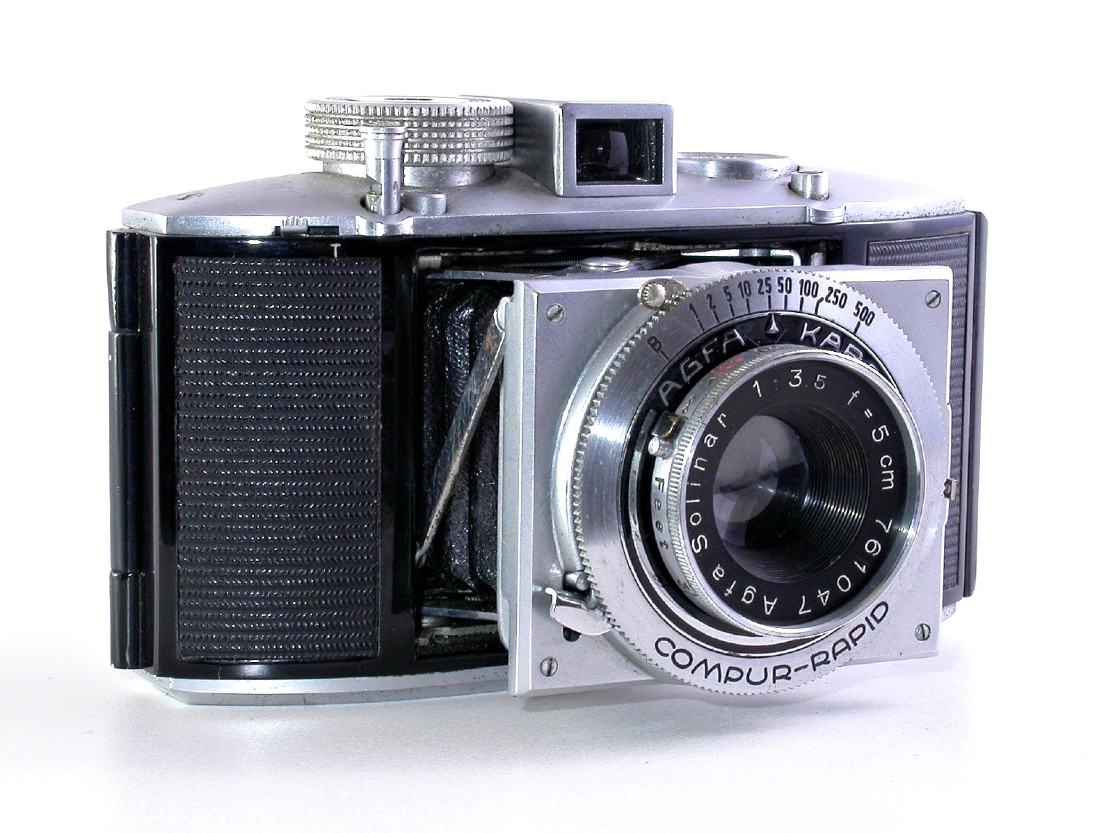 Produced between 1938-41 this version is fitted with 3.5 Solinar lens in a Compur Rapid shutter.